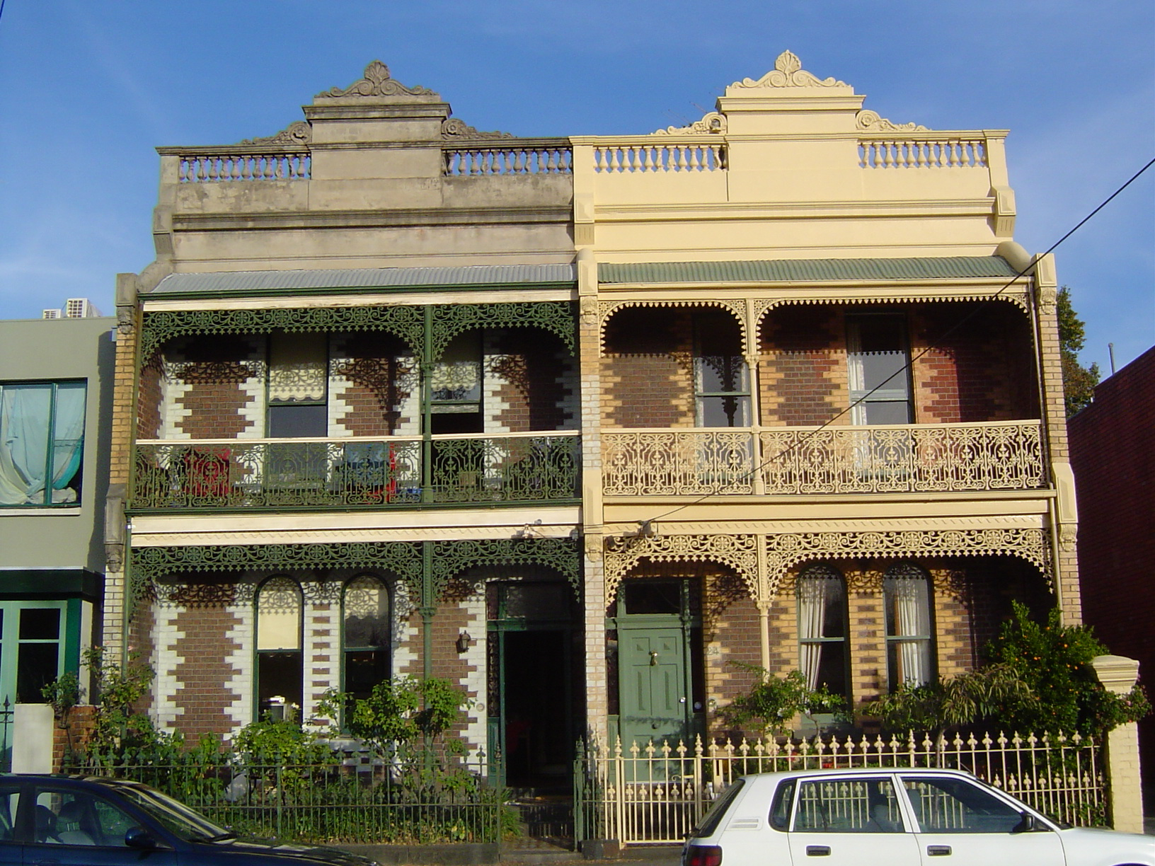 Late Victorian "Melbourne Style" terraces.